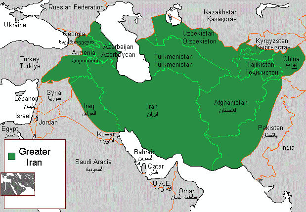 In the previous map, some Kurdish regions were not on the map. I fixed it.